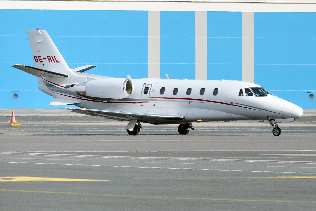 WaltAir, SE-RIL, Cessna Citation XLS